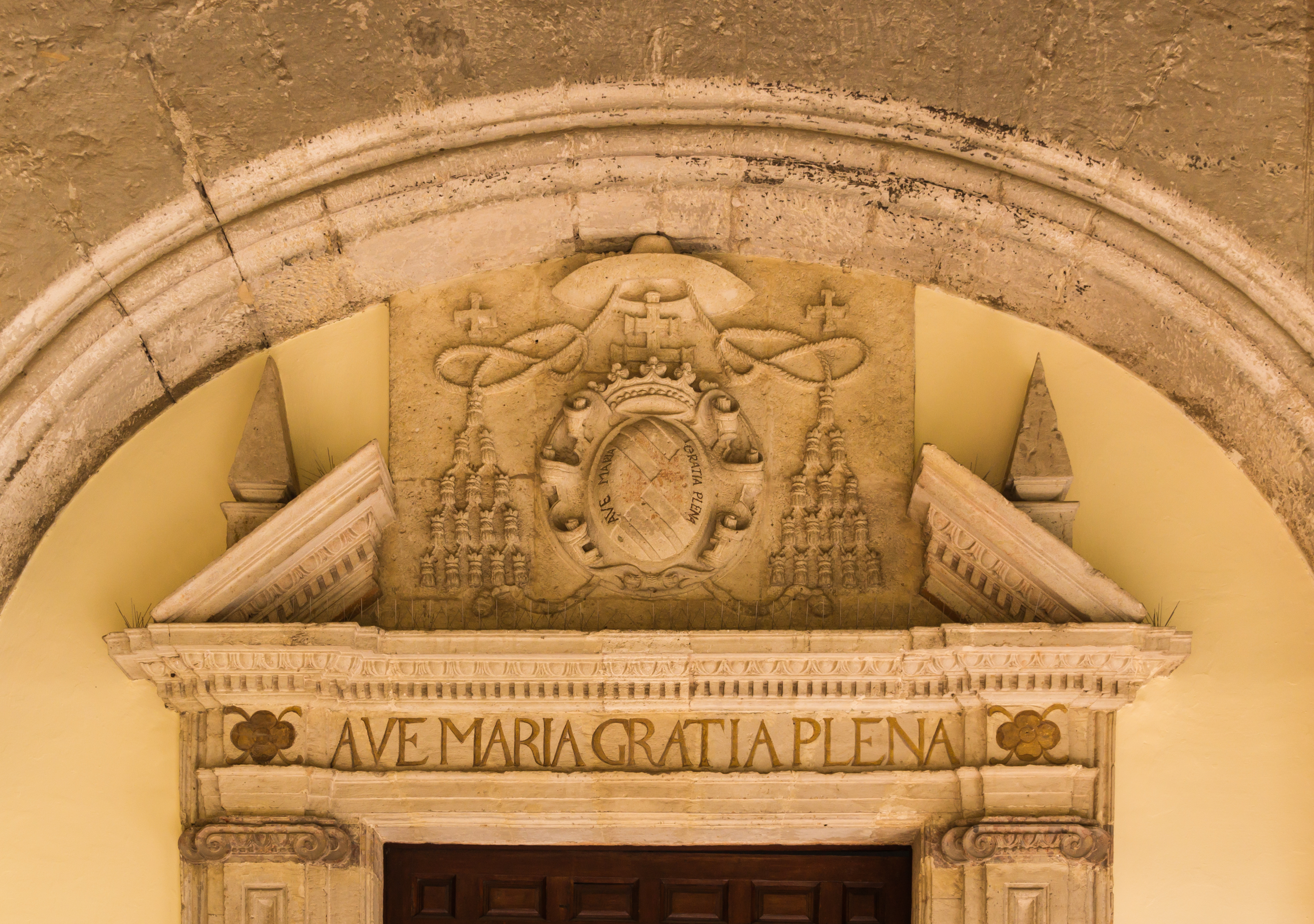 A pediment with the coats of arms of Cardinal Pedro González de Mendoza, archbishop of Sevilla, who took an important part in the fall of Granada in 1492. Monastery of San Jeronimo, Granada, Andalusia, Spain. Not to be confused with Fray Pedro González de Mendoza, who was, some years later... archbishop of Granada !